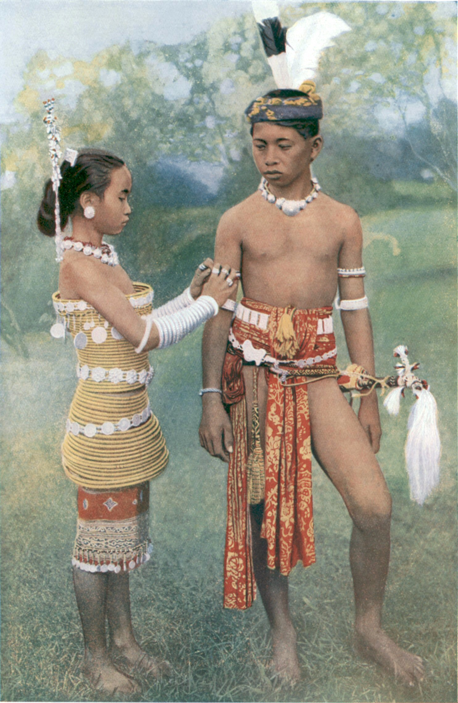 Young Ibans, or Sea Dayaks, certainly look very fine in gala dress; and though the boys may not wear as much as their sisters, their silver ornaments, scarlet and gold waist-cloths, elaborately ornamented swords and coloured turbans, make them fit companions for the girls. The boys' costume is more comfortable than the girls', but ornament in dress is a passion of the Sea Dayaks, and the small child, left, with his plumed hat and heavy necklace, is already a martyr to fashion.